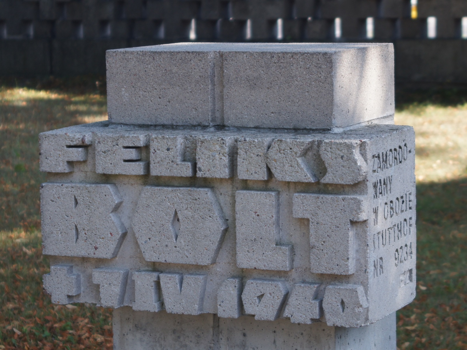 Feliks Bolt - Zaspa Cemetery in Gdańsk